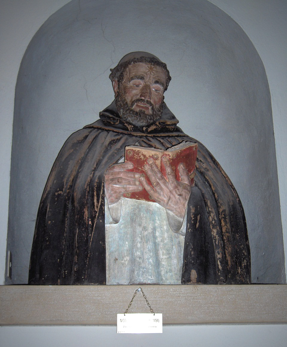 Polychromed terracotta of Saint Dominic by Nicolo dell' Arca (1493) (Basilica of Saint Dominic, Bologna, Italy)